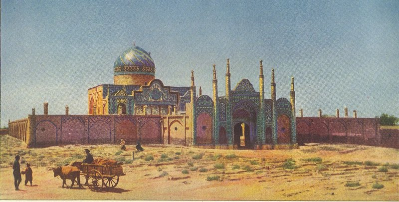 Qazvin, Iran: Mesjed of Koucheek, from 1921 National Geographic Magazine.